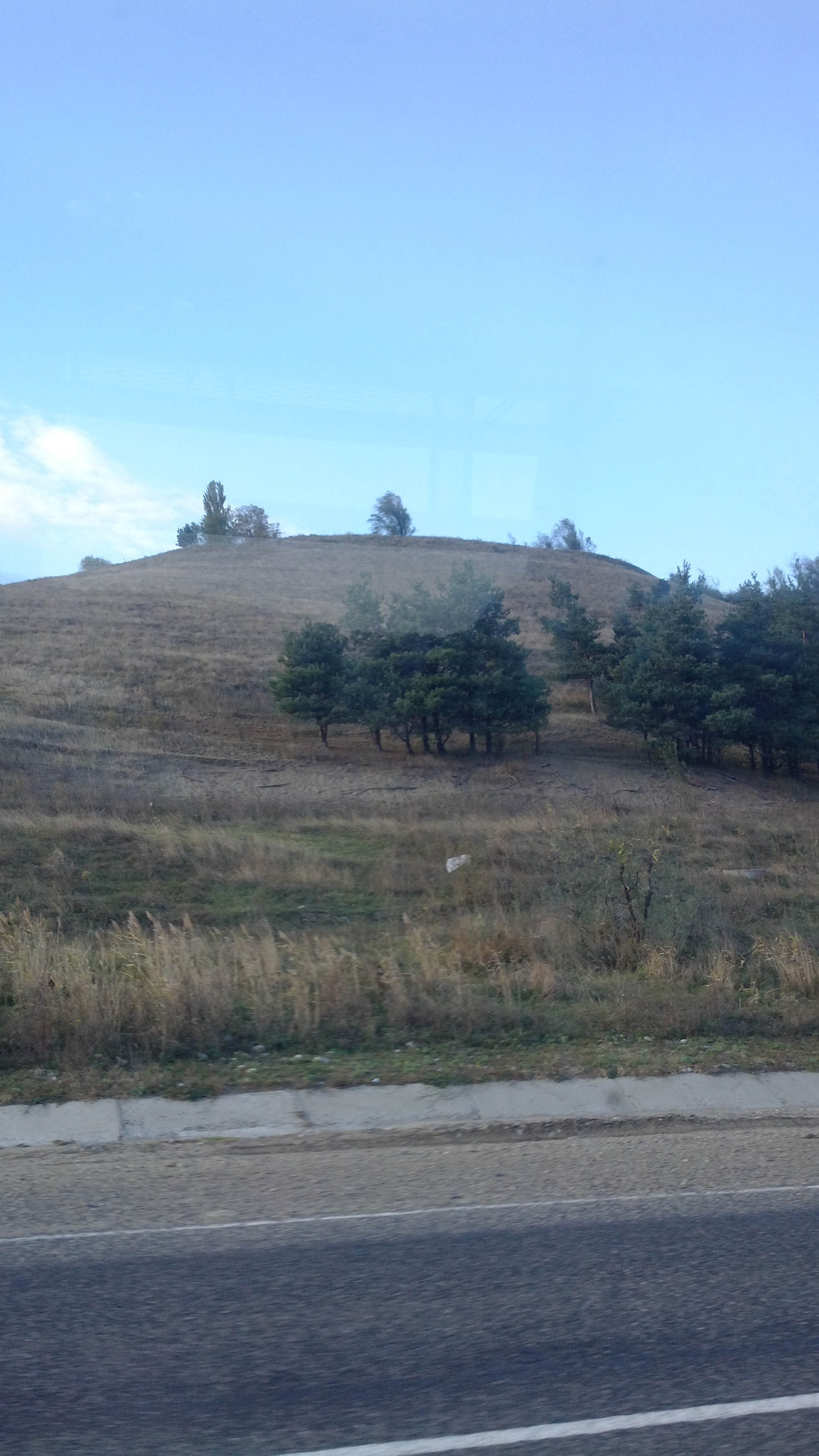 Prikubansky District, Karachay-Cherkessia, Russia